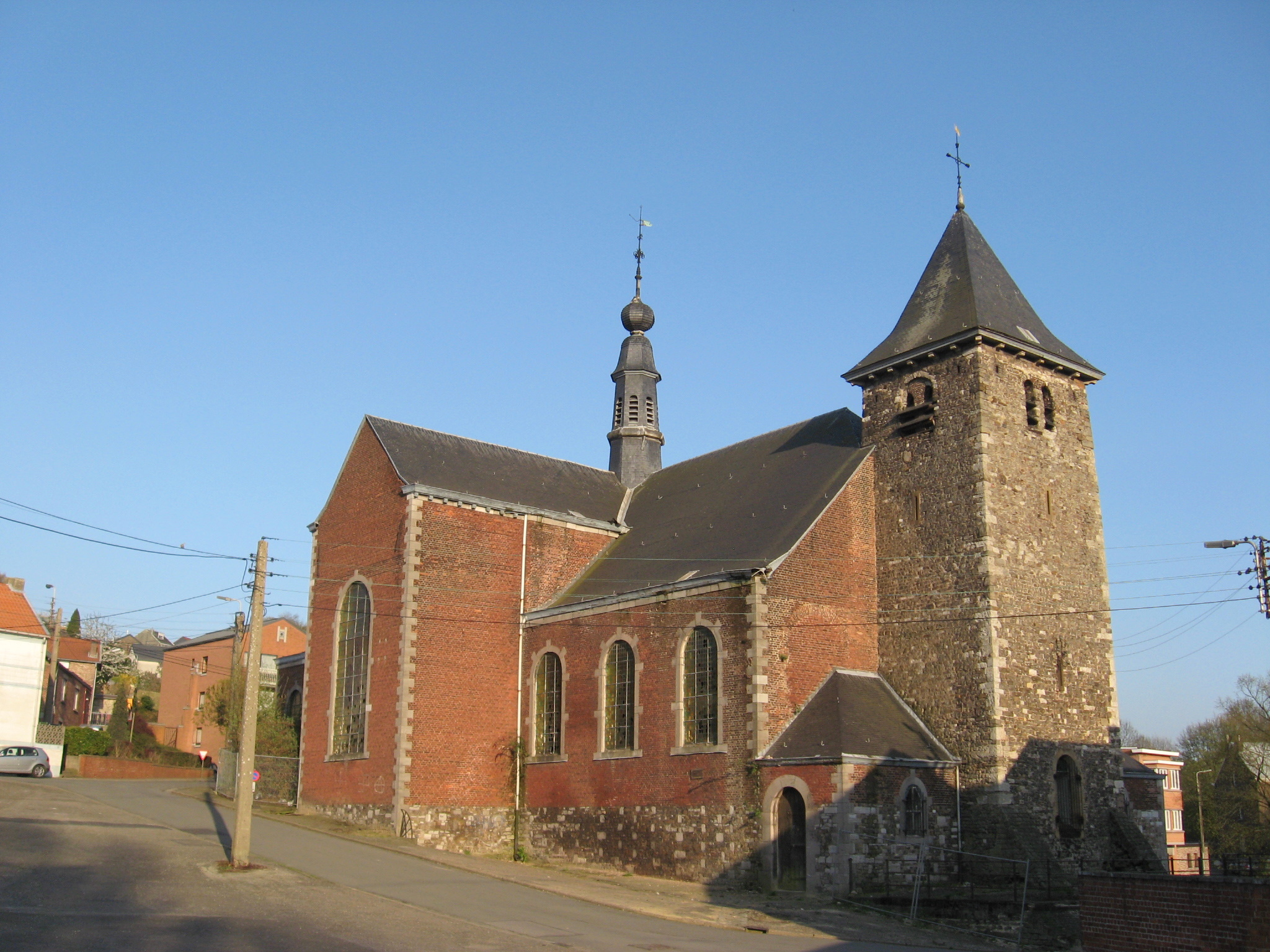 Church of Saint Peter in Hollogne-aux-Pierres, Grâce-Hollogne, Liège, Belgium